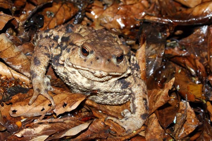 Bufo eichwaldi at Derazno (Bandar-e-torkaman, Golestan, Iran)